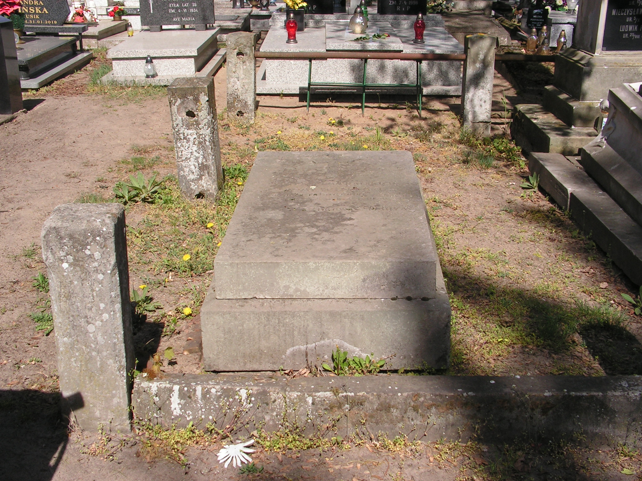 Grave of Tekla Marcjanna Szałwiński born Puchalski (1842-1910) on Communal Cemetery in Włocławek. She was buried in the same quarter as Kazimierz Łada (1824-1871) and victims of catastrophe on the Vistula river in 1906 year, in which died among others her son Karol Szałwiński (1869-1906).